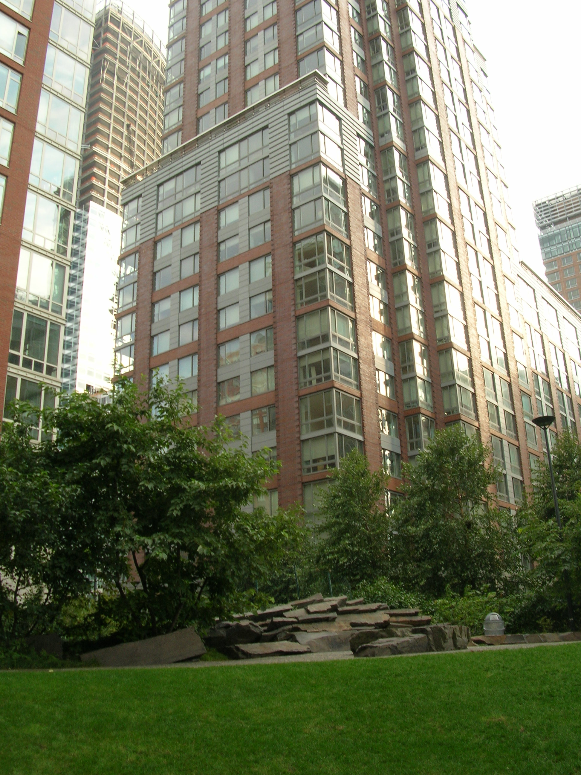 This photo is of Wikis Take Manhattan goal code H6, Teardrop Park.